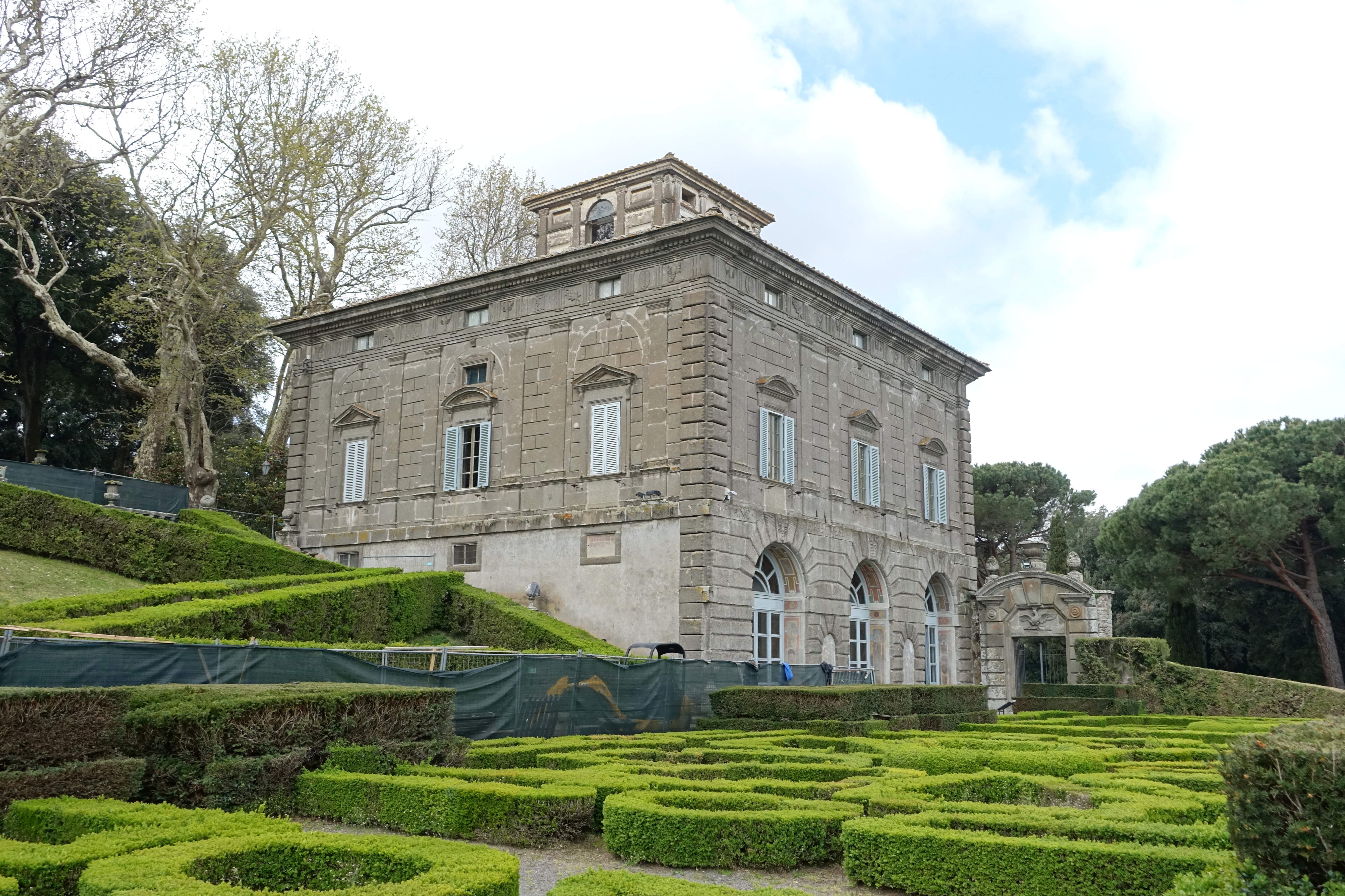 Casino - Villa Lante, Bagnaia, Italy.